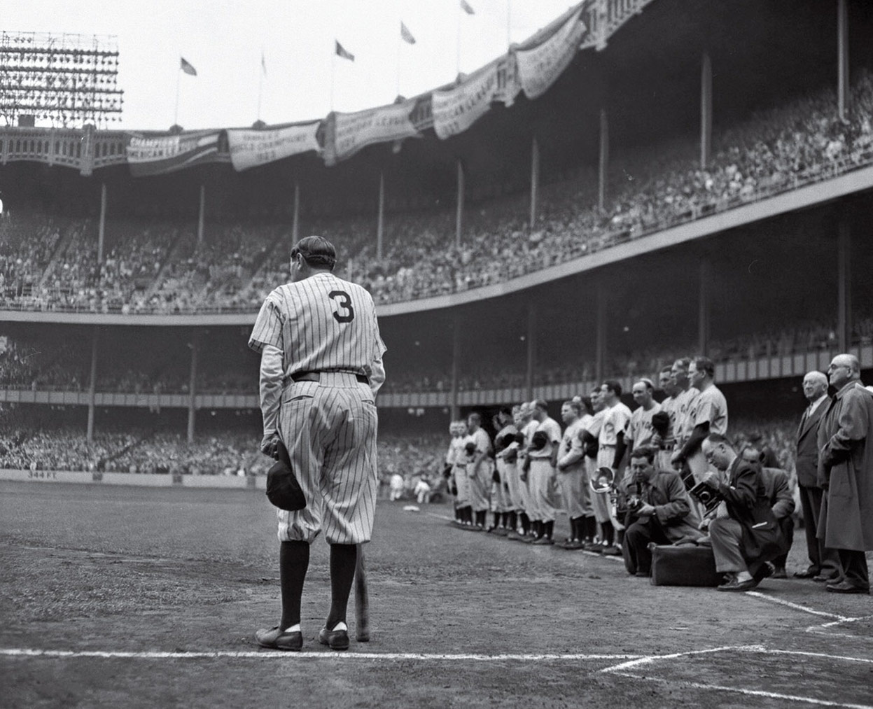 "Babe Ruth Bows Out", photograph of Babe Ruth during a ceremony at Yankee Stadium to retire his number. This photograph won the 1949 Pulitzer Prize for Photography.